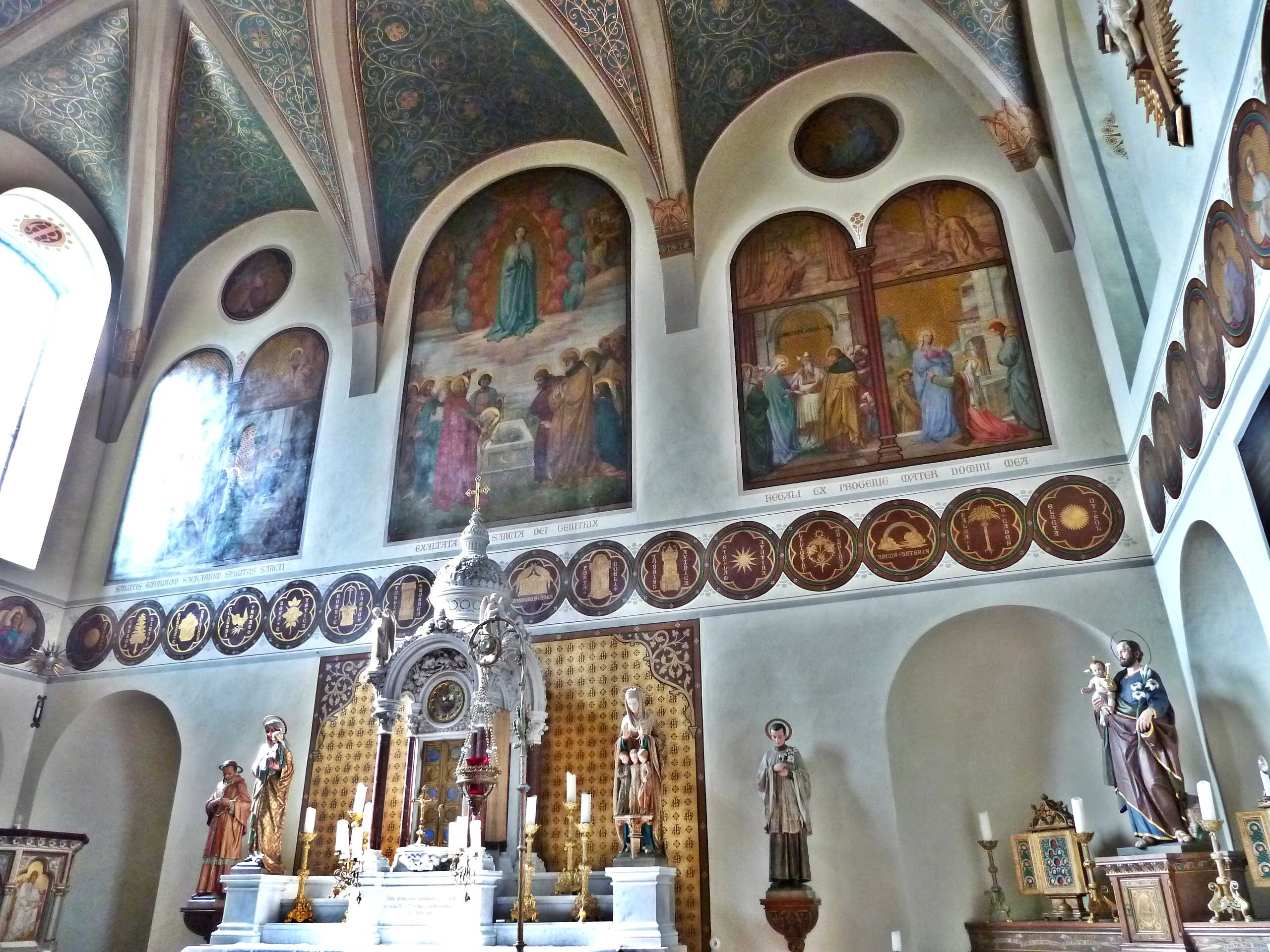 Schloss Löwenstein, Kleinheubach, Schlosskapelle, Altarwand mit Gemälden Eduard von Steinles